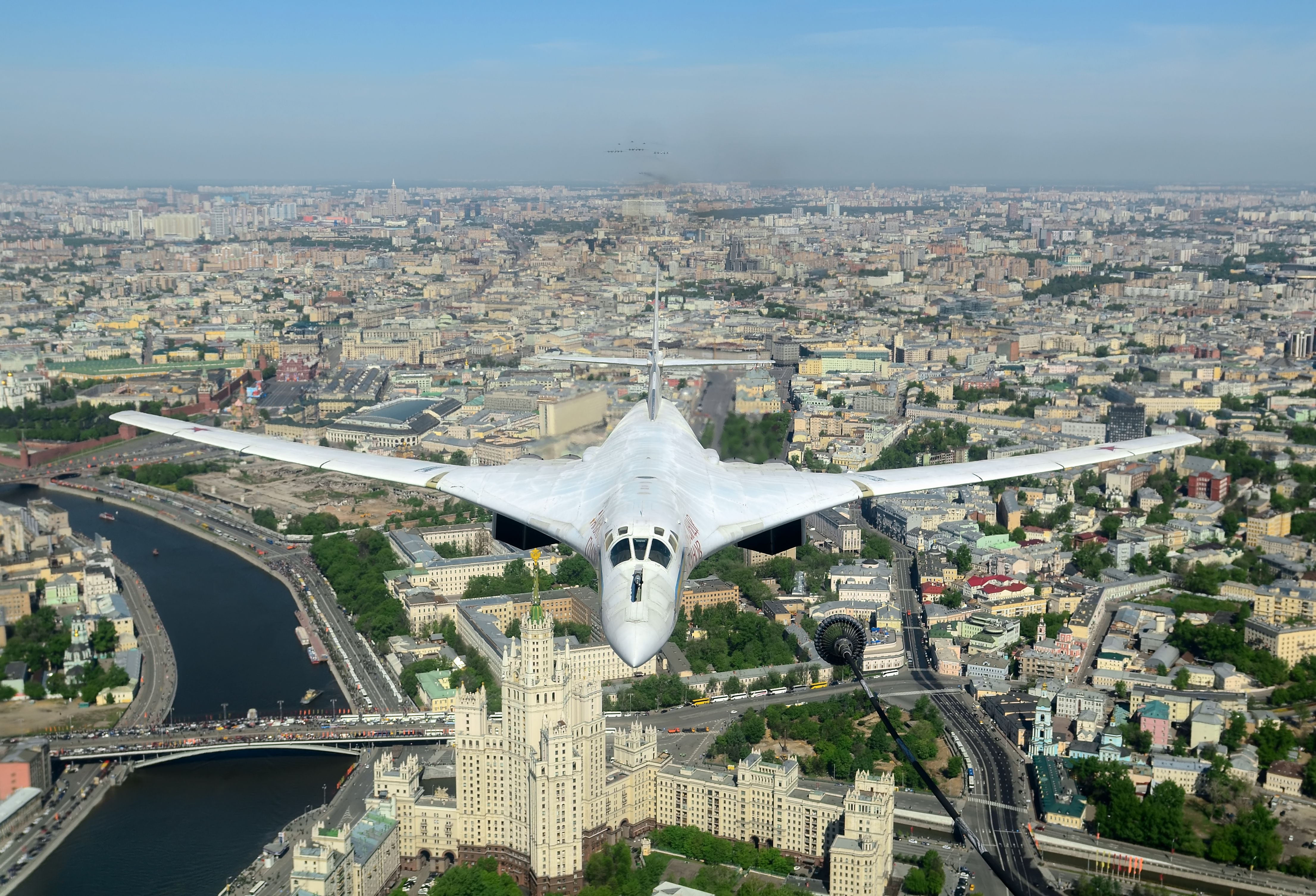 Tupolev Tu-160 overflying Moscow as part of the Victory Day Parade in 2014, Russia